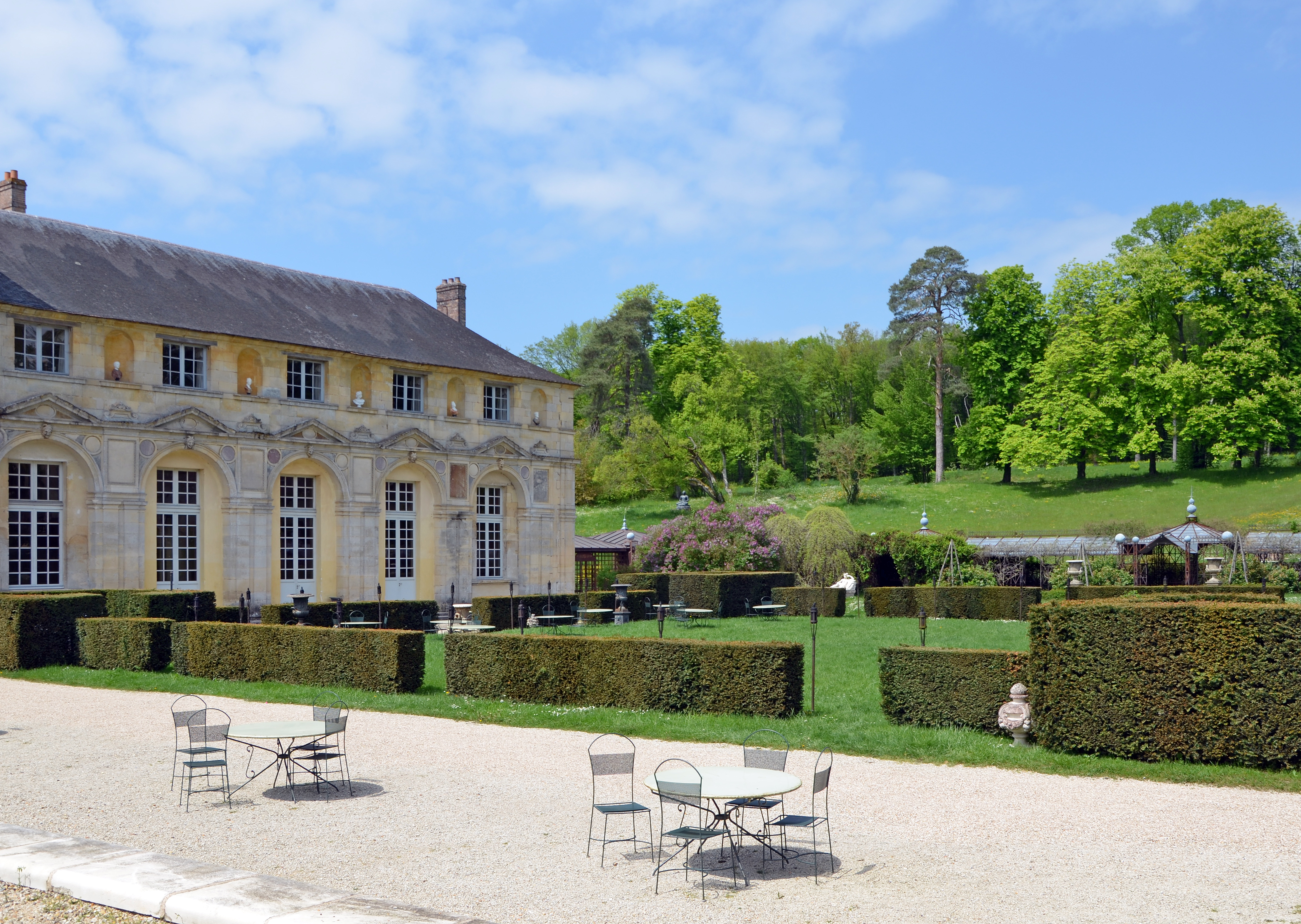 Castle of Vallery, Yonne, France.